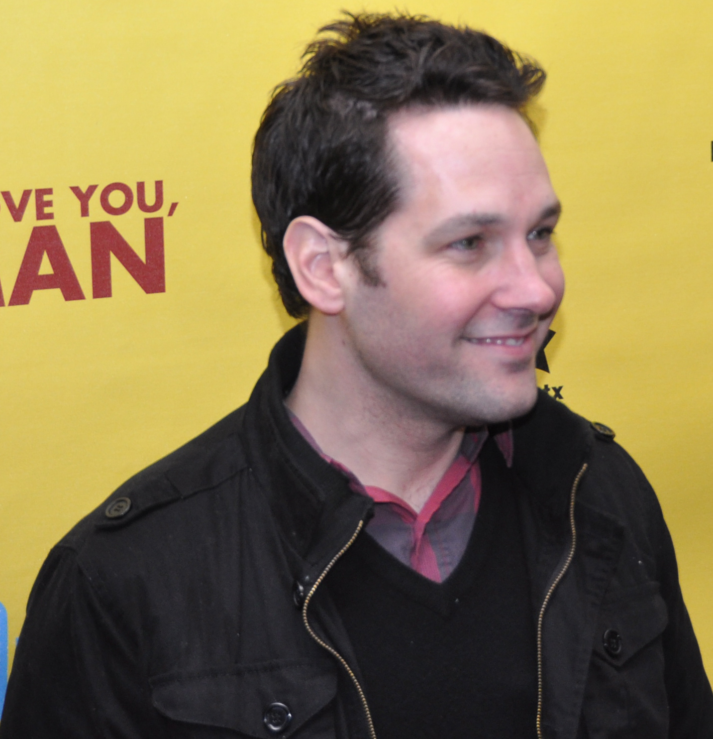 Paul Rudd at the Austin, TX premiere of I Love You, Man